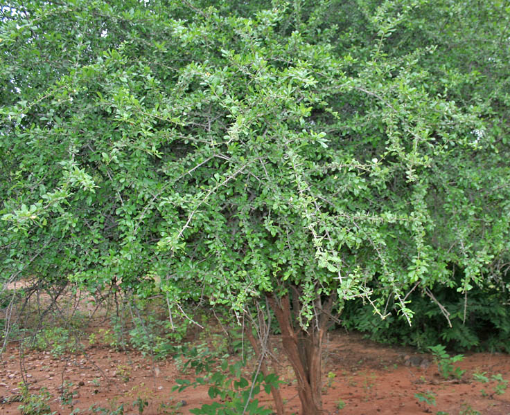 Mountain Pomegranate, Spiny Randia or Mainphal Randia dumetorum syn. Catunaregam spinosa in Hyderabad , India.